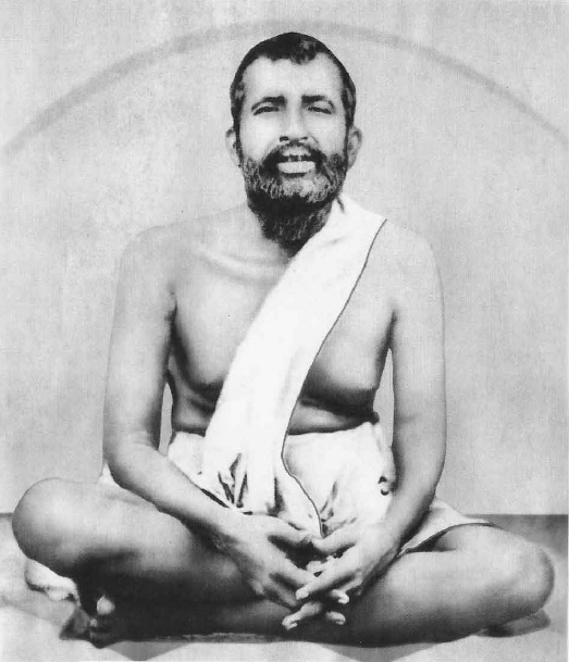 This image was taken by a prominent photographer of Calcutta Abinash Chandra Da. This image was widely circulated after Ramakrishna's death